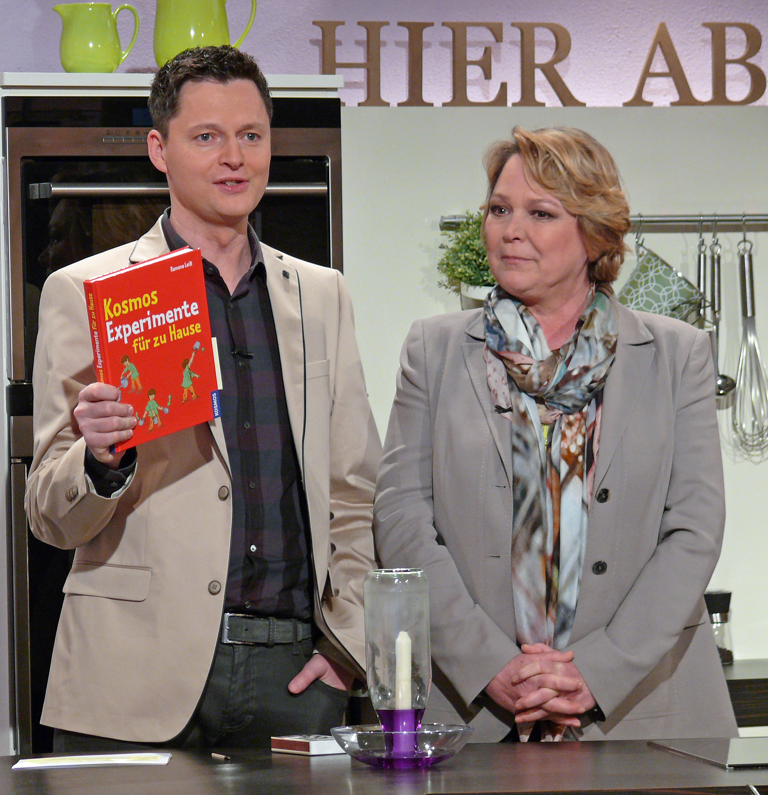 TV presenters Ramona Leiss and Andreas Fritsch